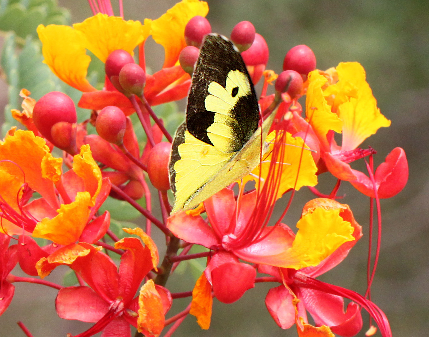 Butterflies of North America